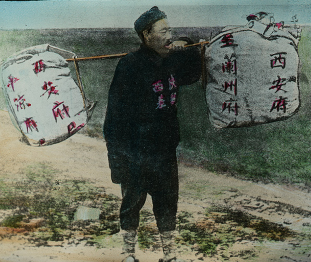 China country postman